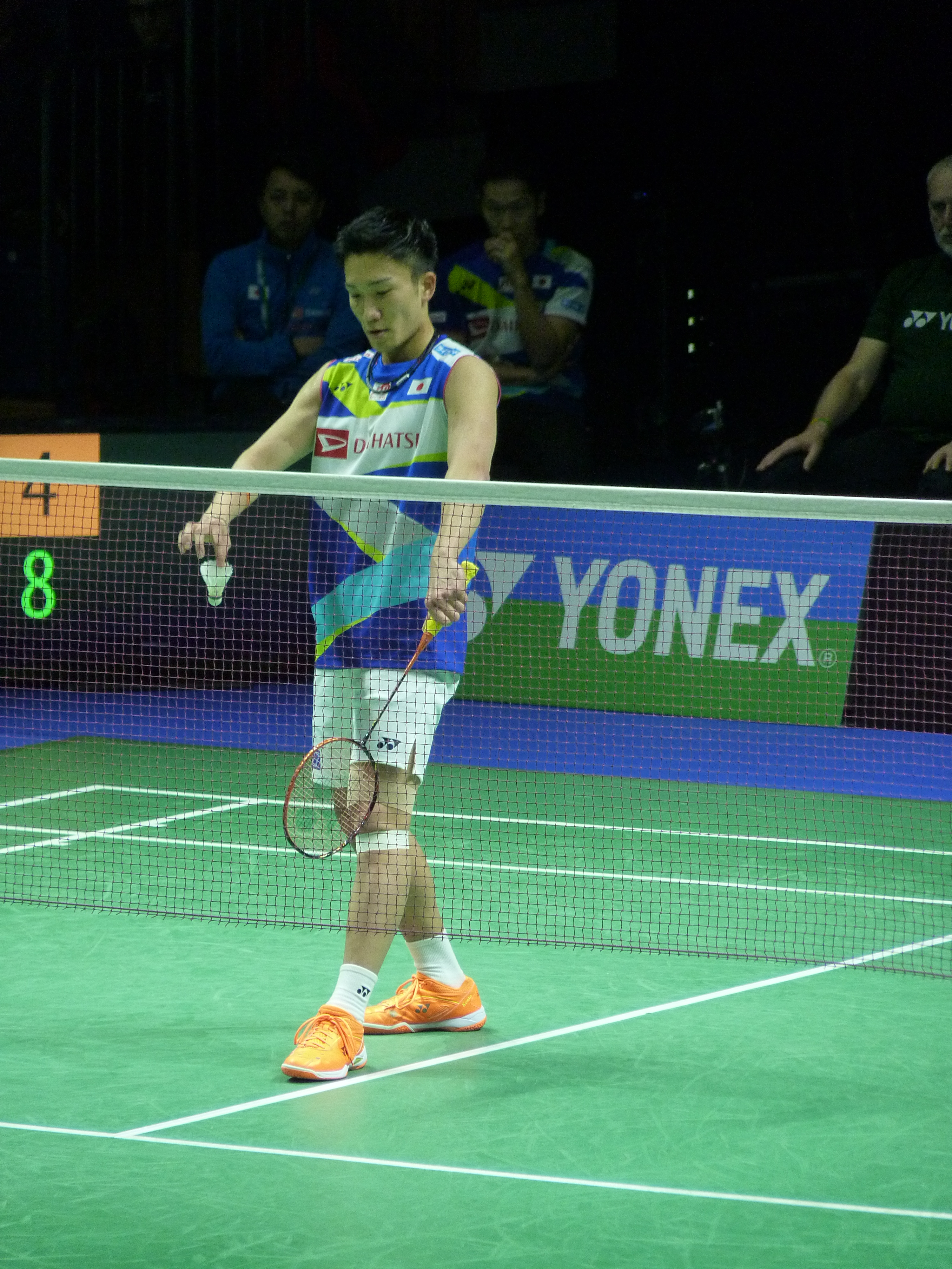 Kento Momota (Japan) BWF 2018 Men's Singles World Champion